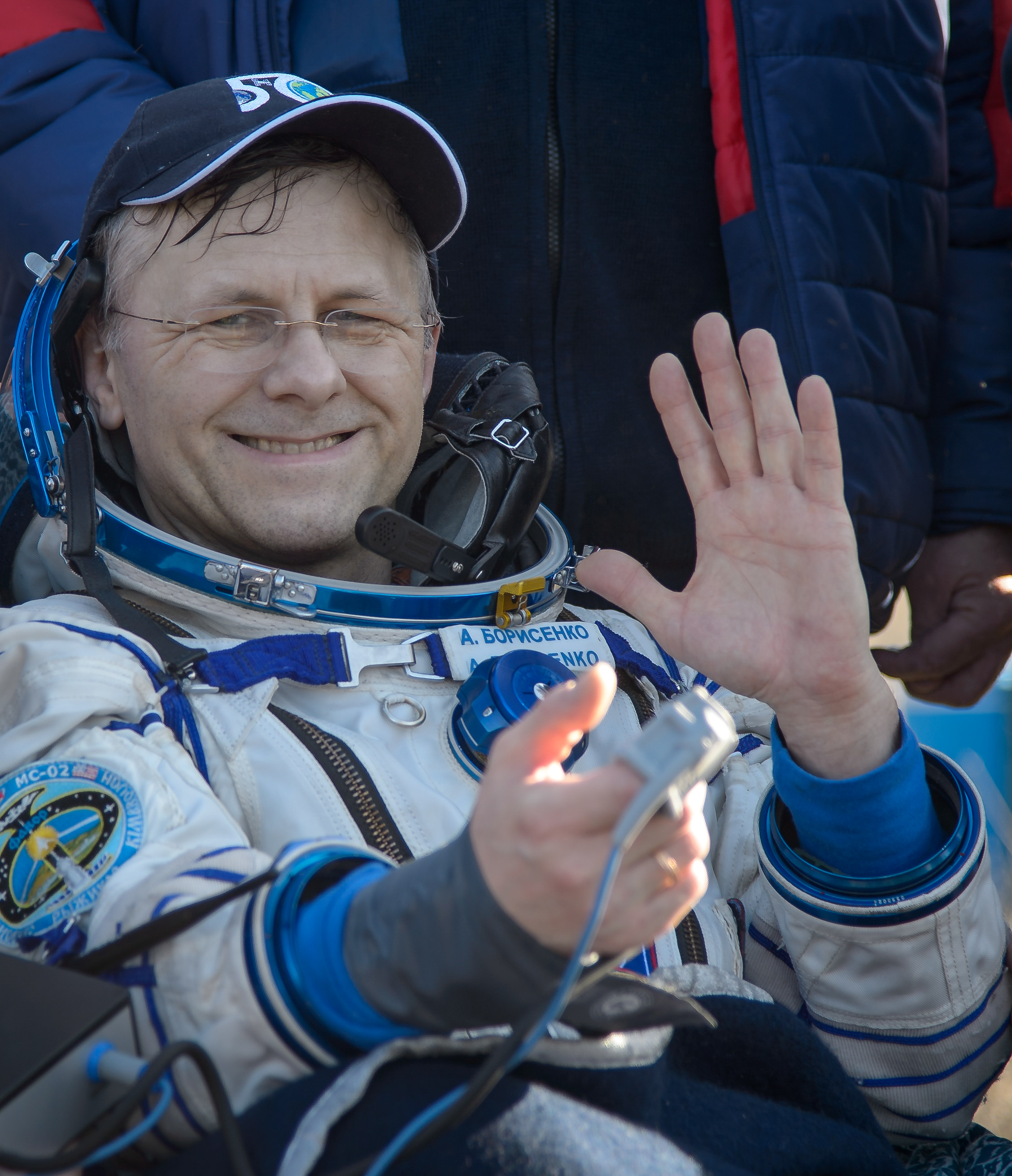 Russian cosmonaut Andrey Borisenko of Roscosmos rests in a chair outside the Soyuz MS-02 spacecraft just minutes after he, NASA astronaut Shane Kimbrough, and Russian cosmonaut Sergey Ryzhikov of Roscosmos landed in a remote area near the town of Zhezkazgan, Kazakhstan on Monday, April 10, 2017 (Kazakh time). Kimbrough, Ryzhikov, and Borisenko are returning after 173 days in space where they served as members of the Expedition 49 and 50 crews onboard the International Space Station.